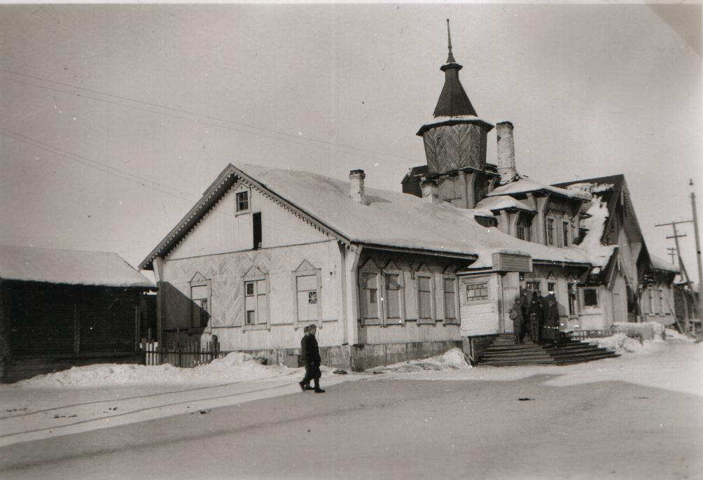 Karhumäki (Медвежьегорск, Medvežjegorsk/Medvezhyegorsk) train station in Karelia, Russia. Photograph taken during the Continuation War Finnish occupation in 1941-1944.